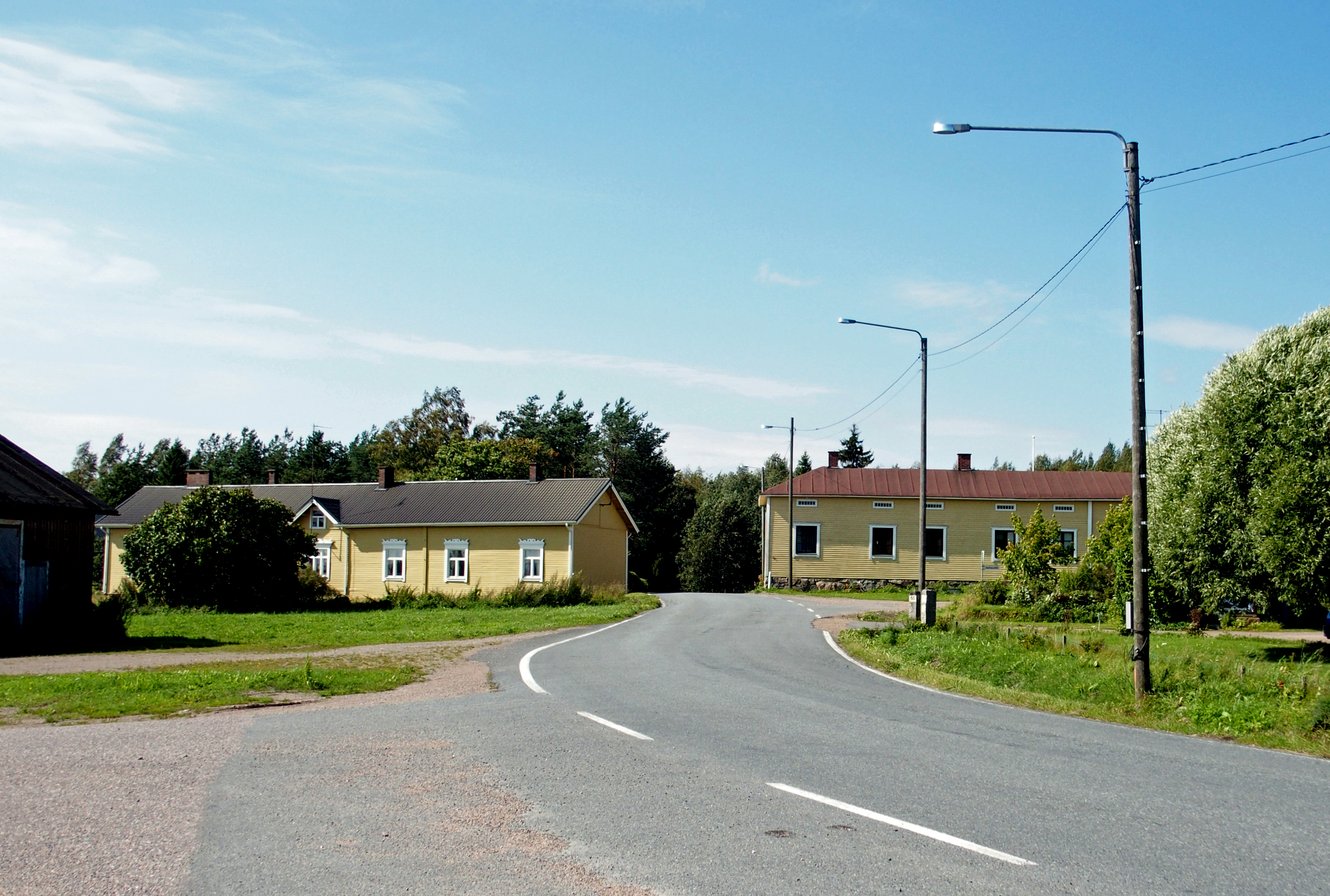 Vojakkalantie road (connecting road 2824) in Vojakkala village in Loppi, Finland